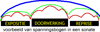 Musical tension example [reads: Exhibition impact reprise example of tension in a sonata]